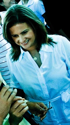 Micarla de Sousa, current mayor of Natal city, Brazil.